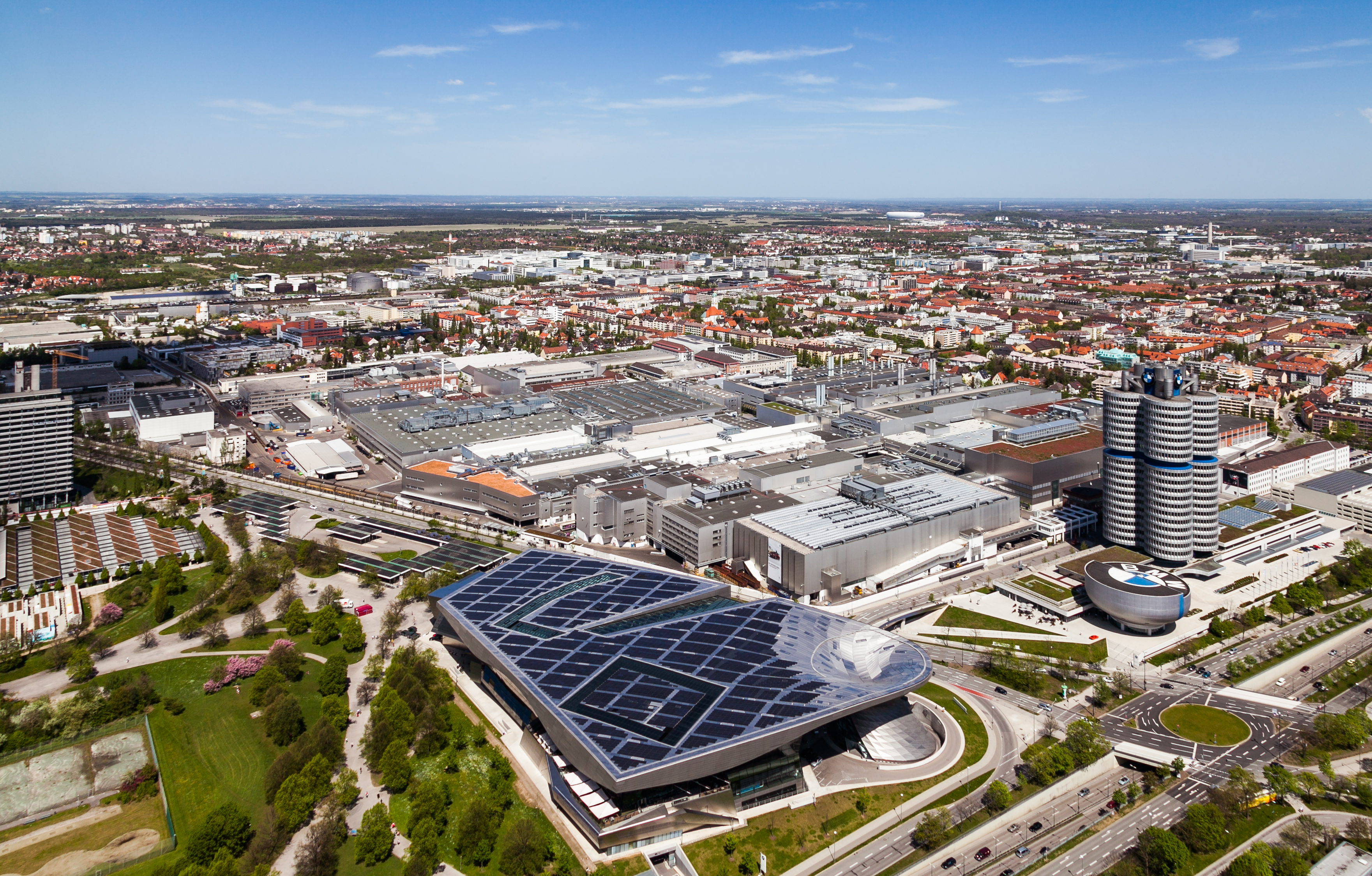 BMW plant, Welt and Tower, Munich, Germany